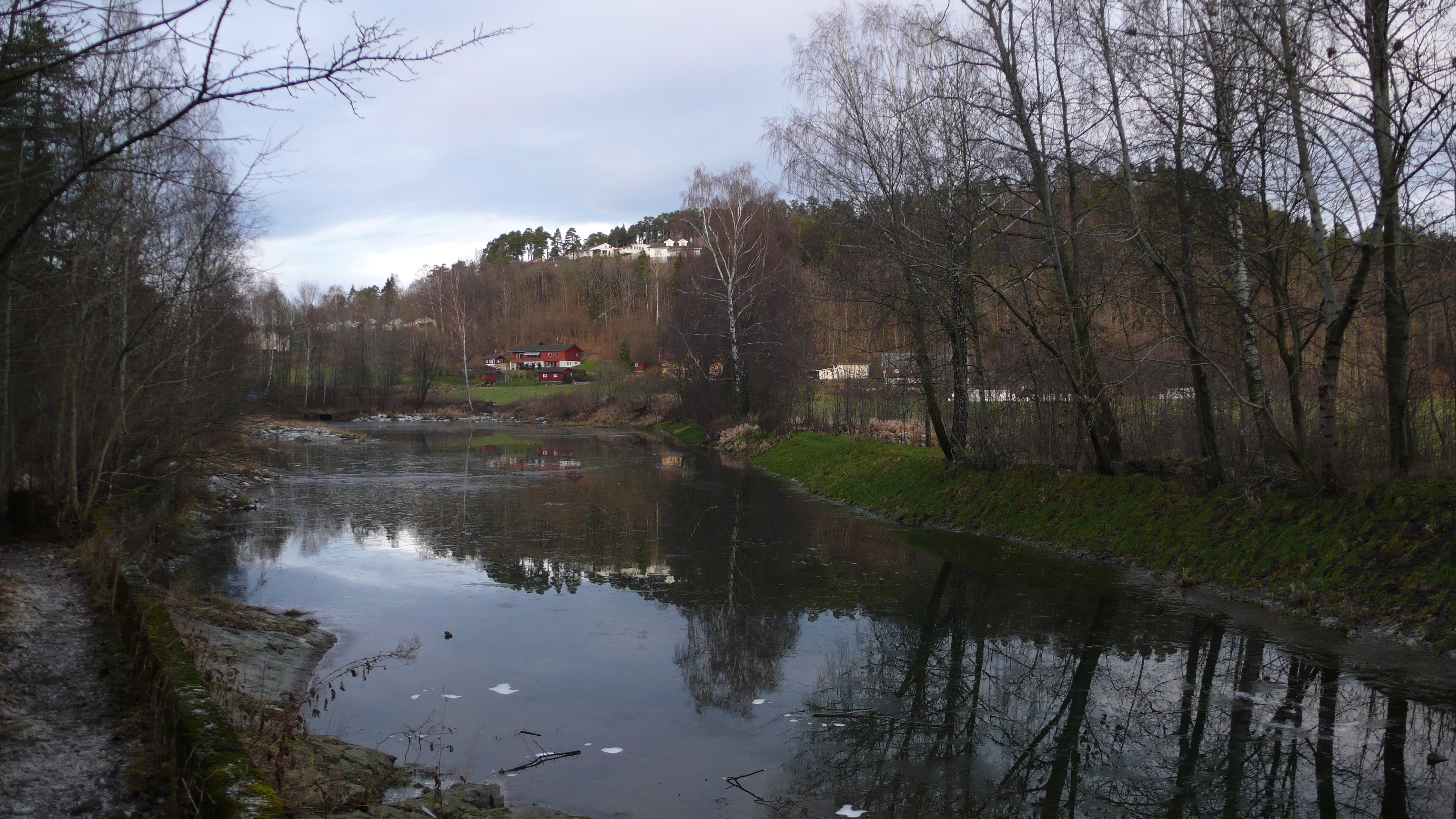 "Nedre Lundedam" historical ice-drifting pond